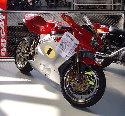 Image of MV Agusta F4 Ago motorbike